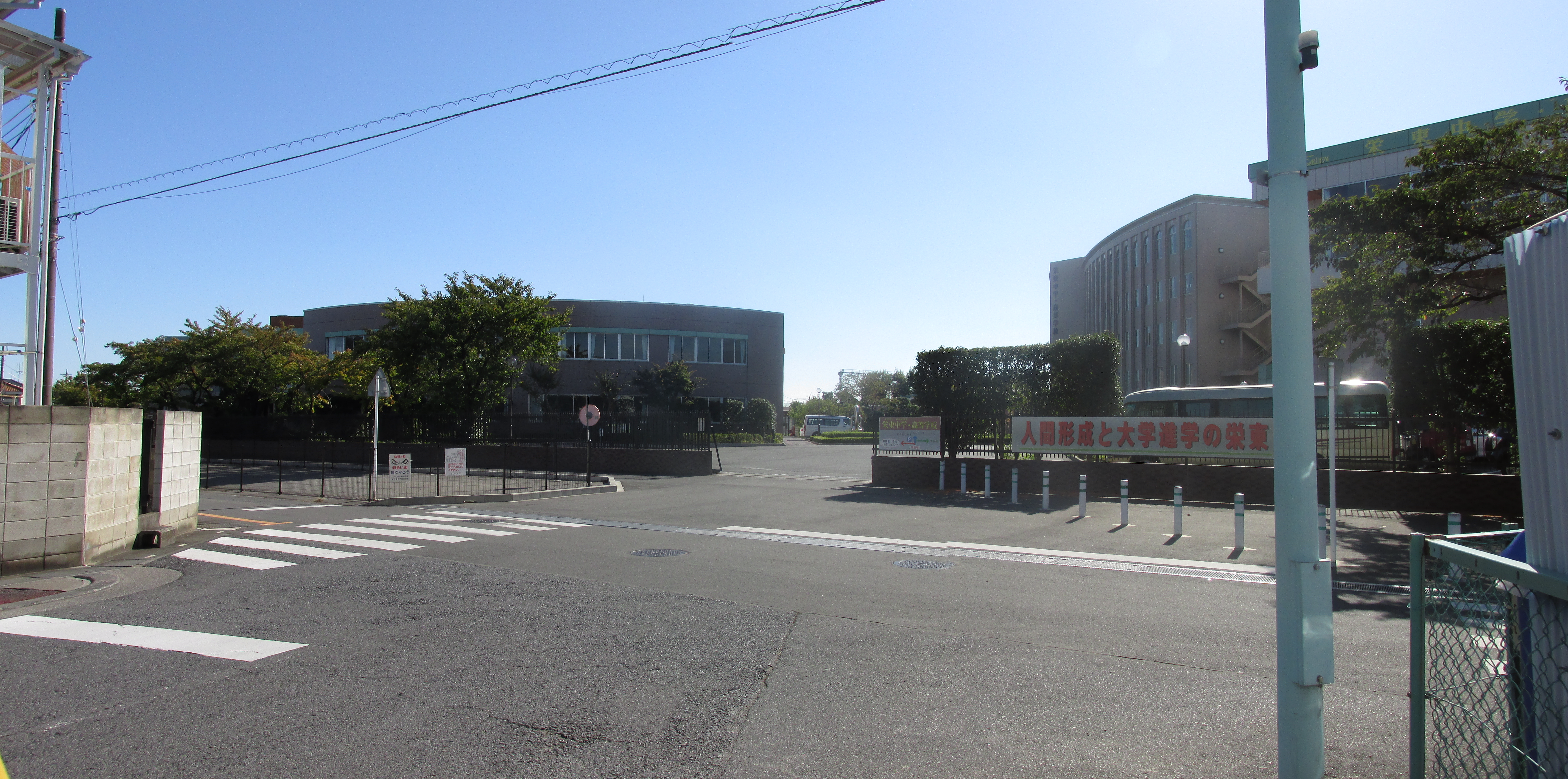 North gate of Sakaehigashi Junior / Senior High School in Saitama City, Japan